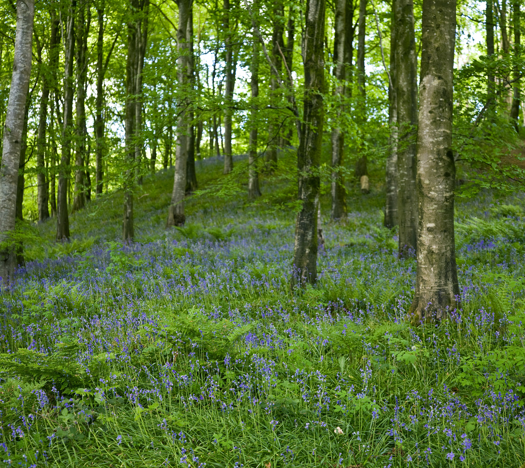 Bluebells in Portglenone Forest in spring. Taken by myself with a Canon 5D and 24-150mm f/4L IS lens.